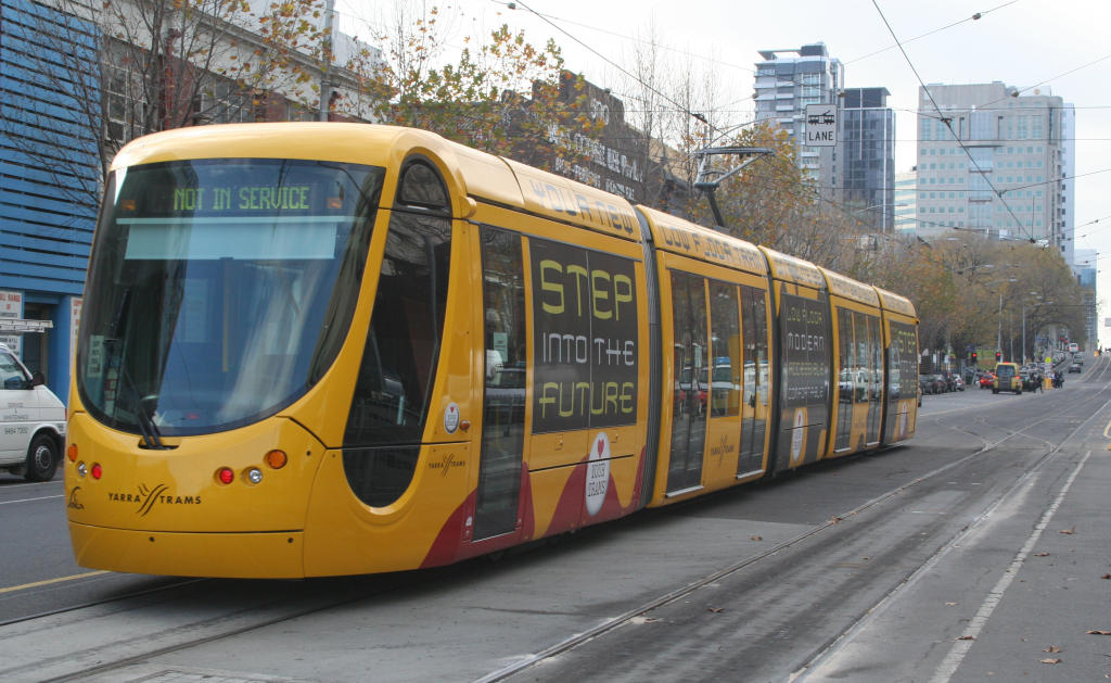 C2 class Melbourne tram testing on Latrobe Street, derived from Mulhouse tram.